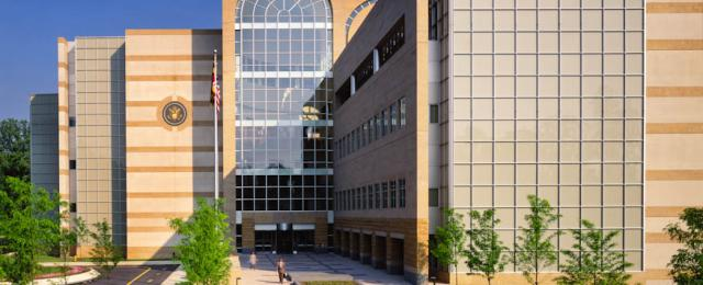 View of US District Court for Maryland, Southern Division, in Greenbelt, Maryland. From the Court's Website.